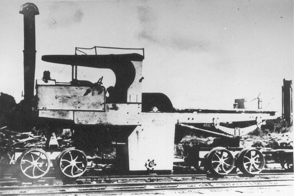 "Harlot" the Ransome steam lorry was one of the most unusual locomotives to operate on the Circular Head, Tasmania tramways (Marrawah Tramway). Special permission had to be given to drive it to Salmon River on the Marrawah Tramline and extra care was taken due to the type of wheels on the engine but it reached its destination without any serious damage. The journey took a whole day.